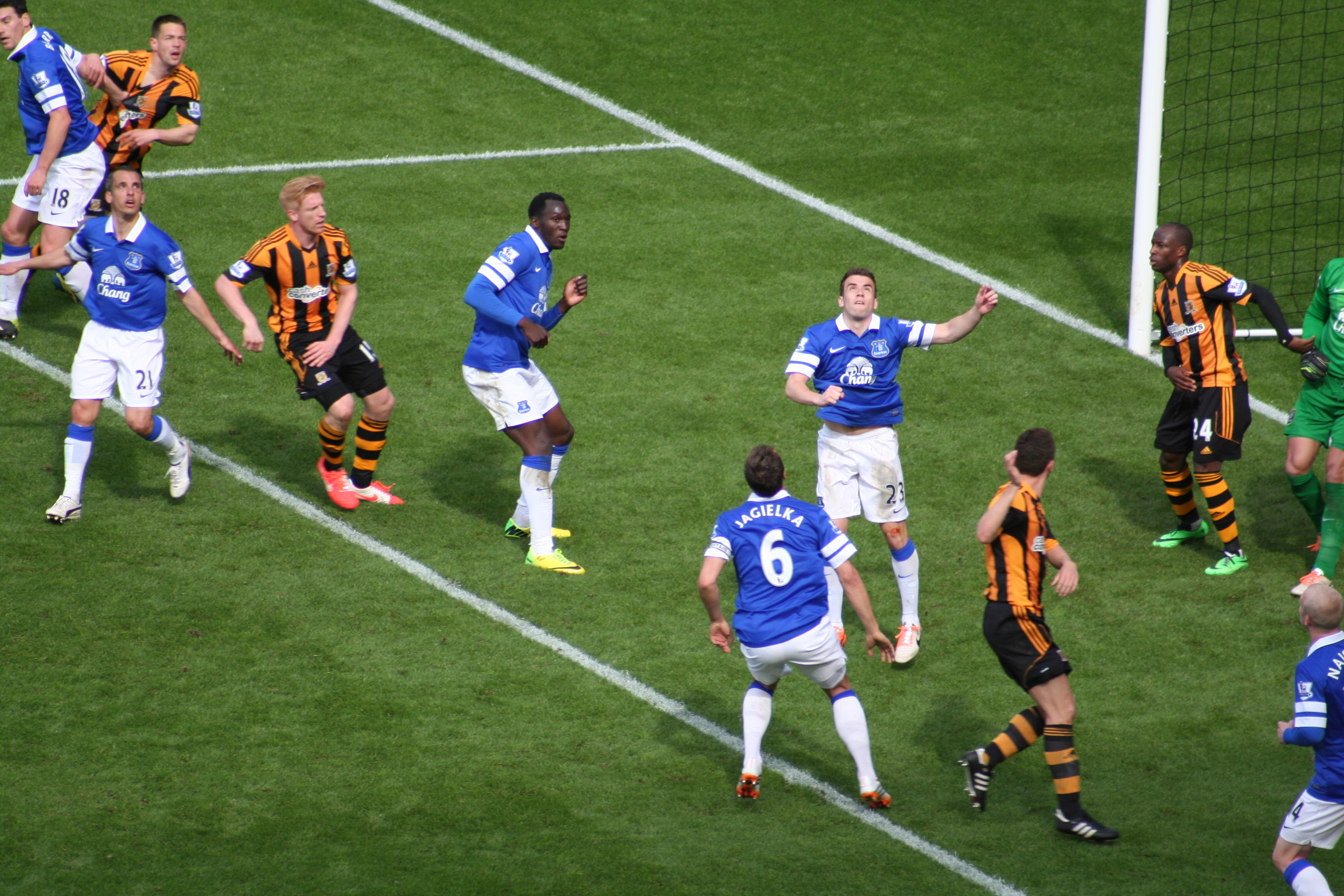 Hull City (orange and black striped kits) and Everton (blue) players during 2013-14 Premier League match.